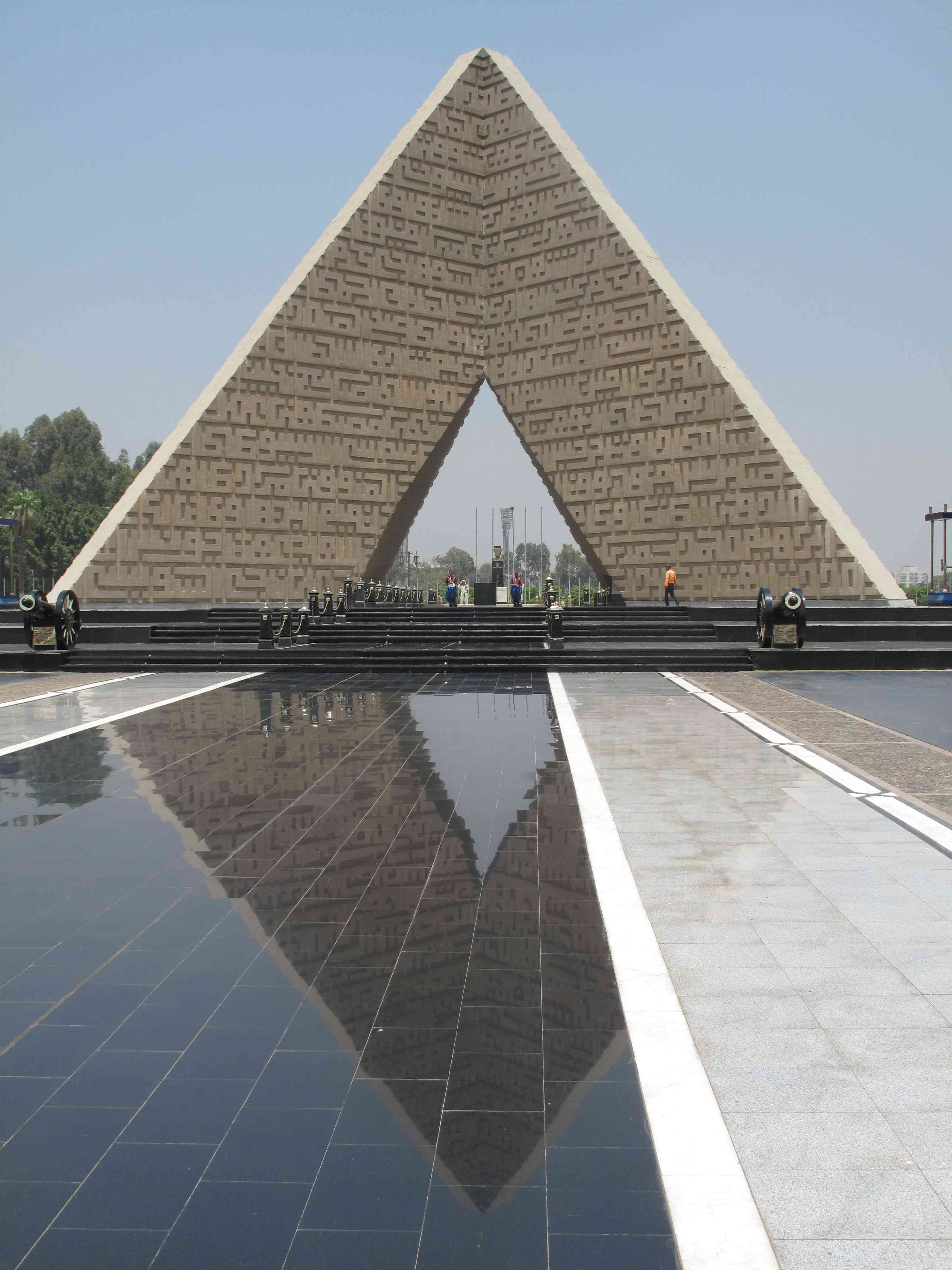 Tomb of Unknown Soldier, Cairo Egypt